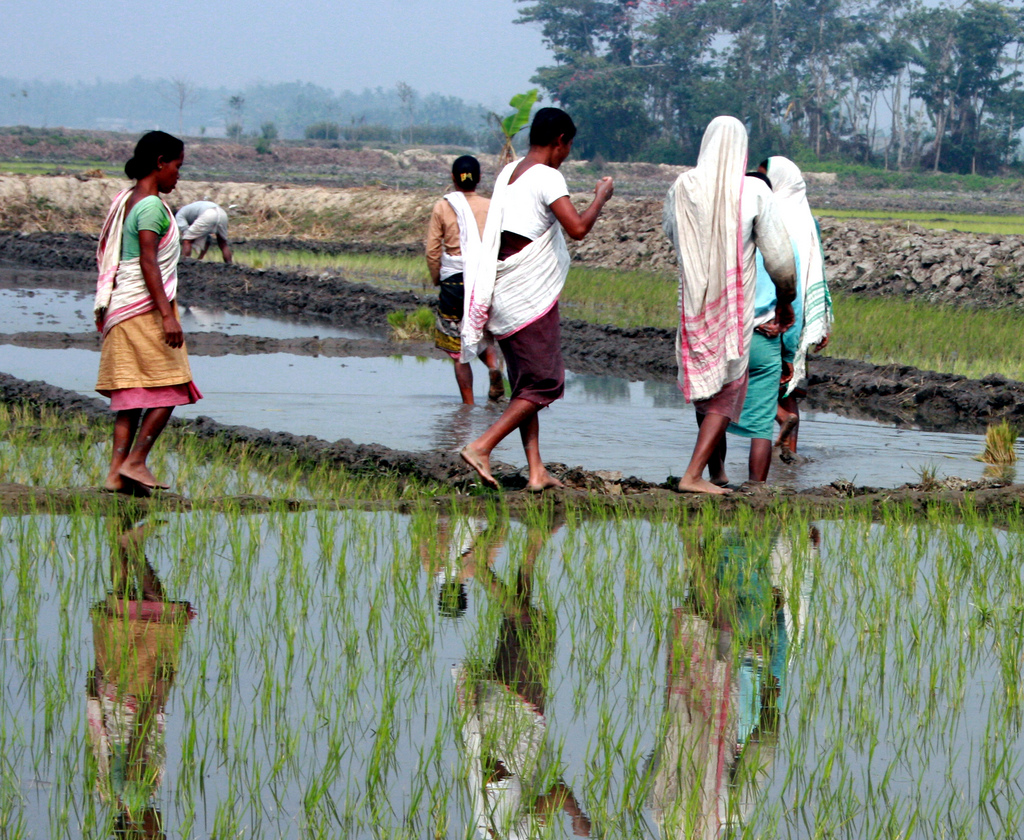 Nagaon, Assam, India